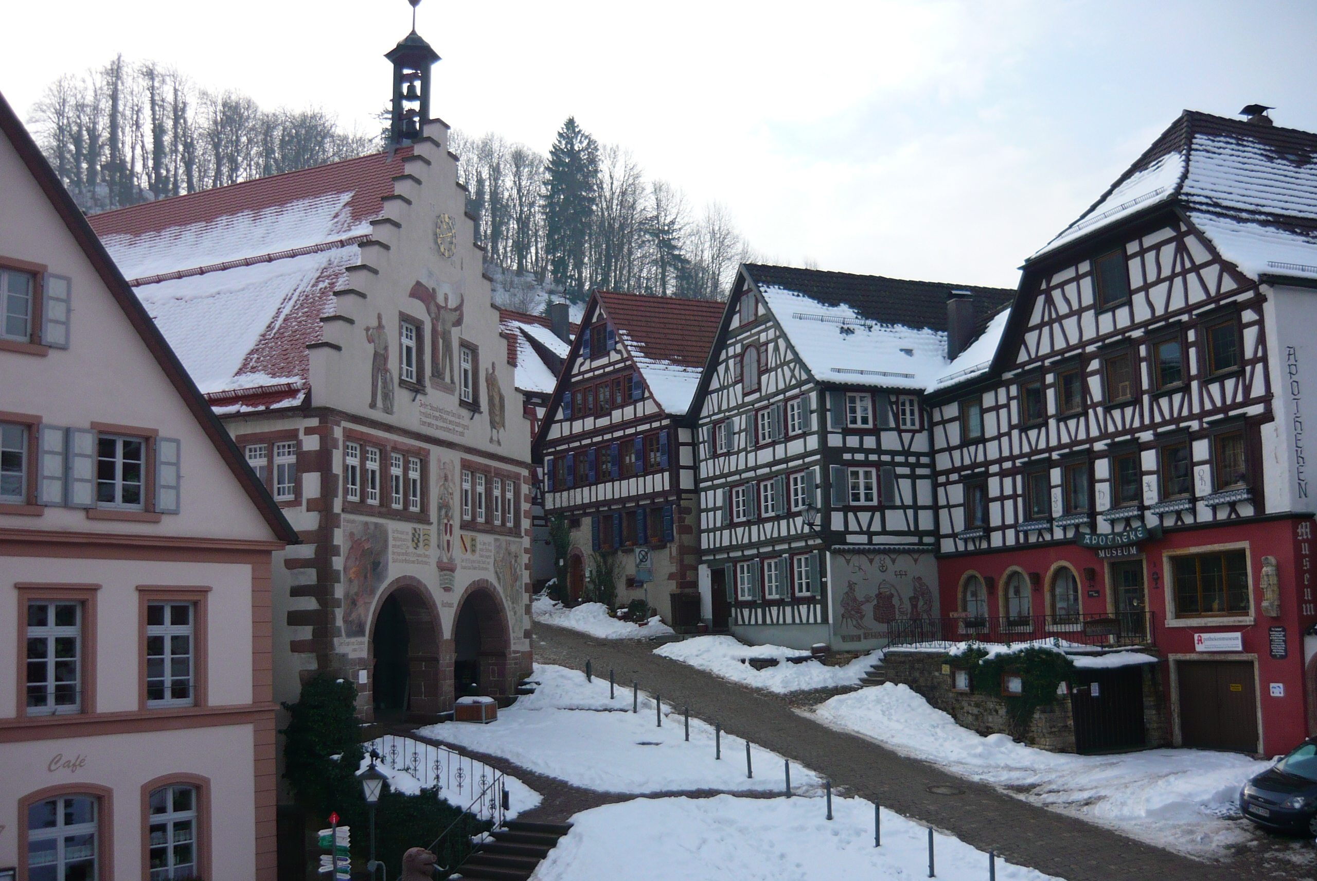 Marketplace in Schiltach with Townhall in the left and the beginning of the Castlemountainstreet